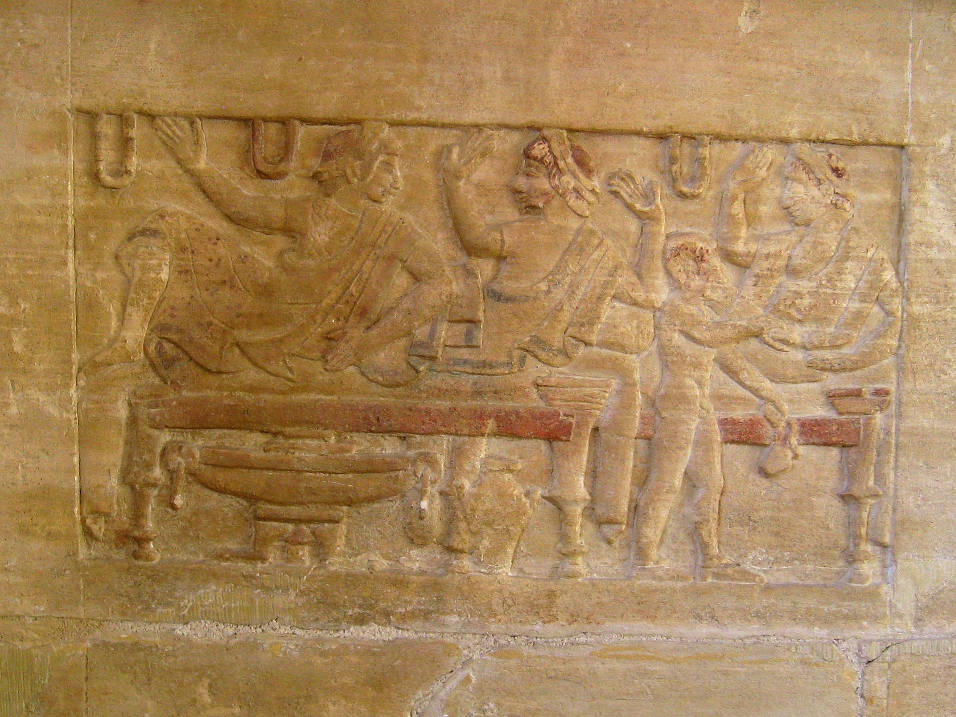 Relief-decorated sarcophagus manufactured in a cippi and ash urns workshop in Chiusi, probably commissioned for a warrior chief. On the front, the return from a raid for cattle and prisoners. On the short sides, banqueters.side view